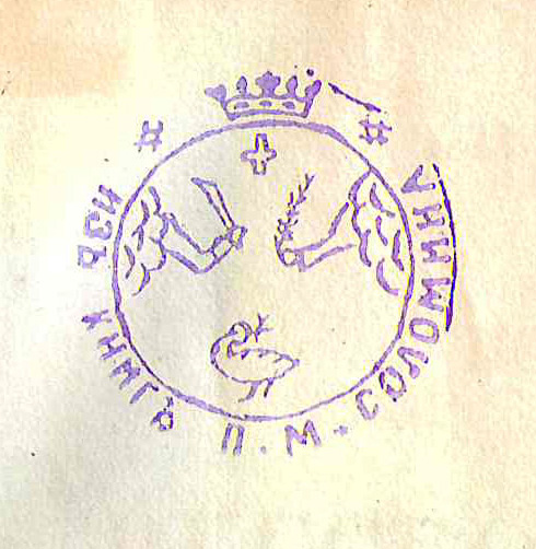 Russian personal nobleman Pyotr M. Solomin's bookstamp. Yaransk, Vyatka Governorate, Russian Empire